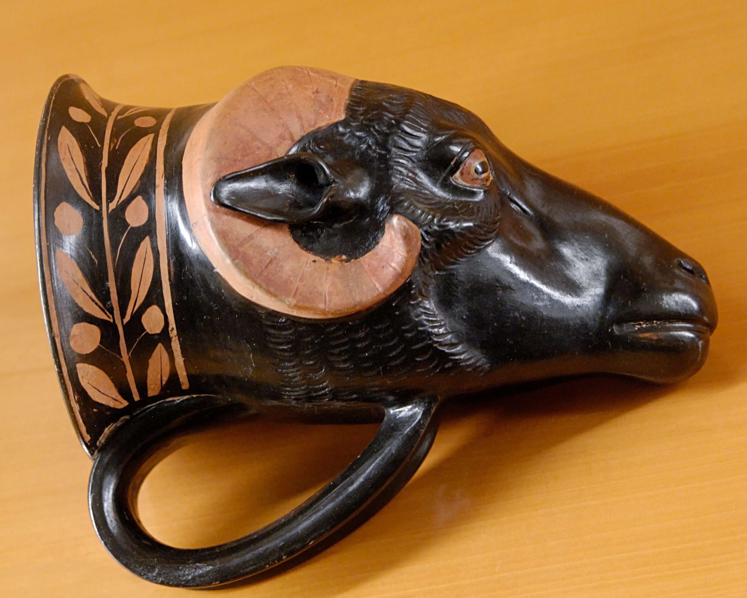 Attic red-figure ram-head rhyton, 400–375 BC.